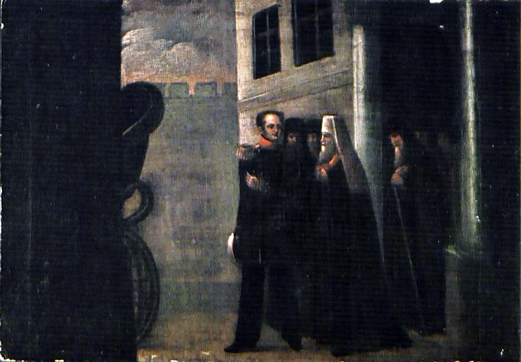 A postcard published in 19th century in Russian Empire